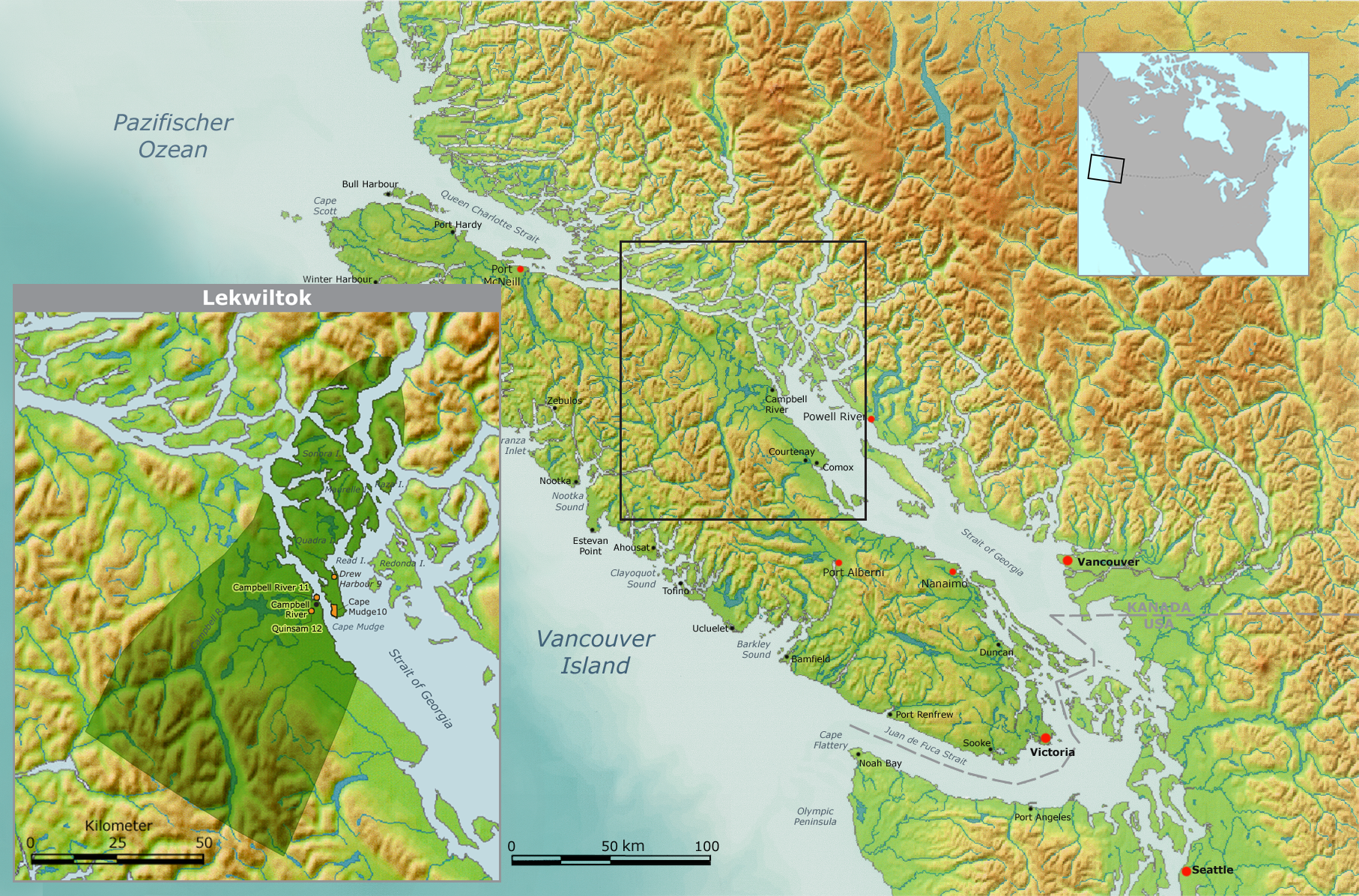 Map of traditional Lekwiltok tribal territory.